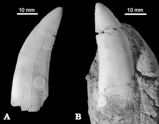 A predatory archosaur Smok wawelski gen. et sp. nov., Lisowice (Lipie Śląskie clay−pit), Late Triassic (lates Norian–early Rhaetian). Iso− lated teeth in lateral view. A. ZPAL V.33/55. B. ZPAL V.33/50.